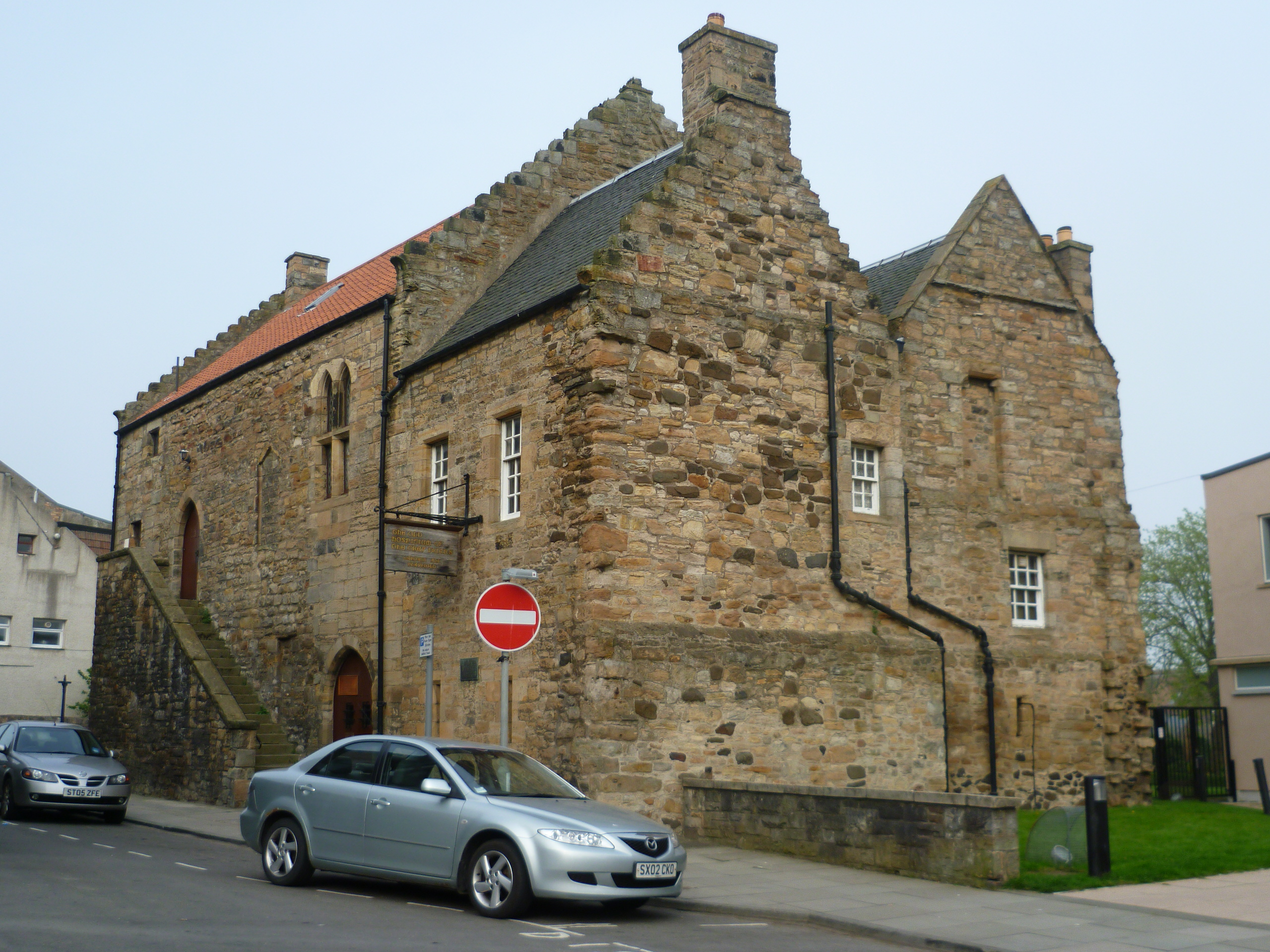 Hospitium of the Grey Friars